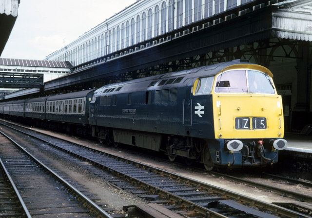 1023 1z15 Paddington extra service at Exeter St Davids